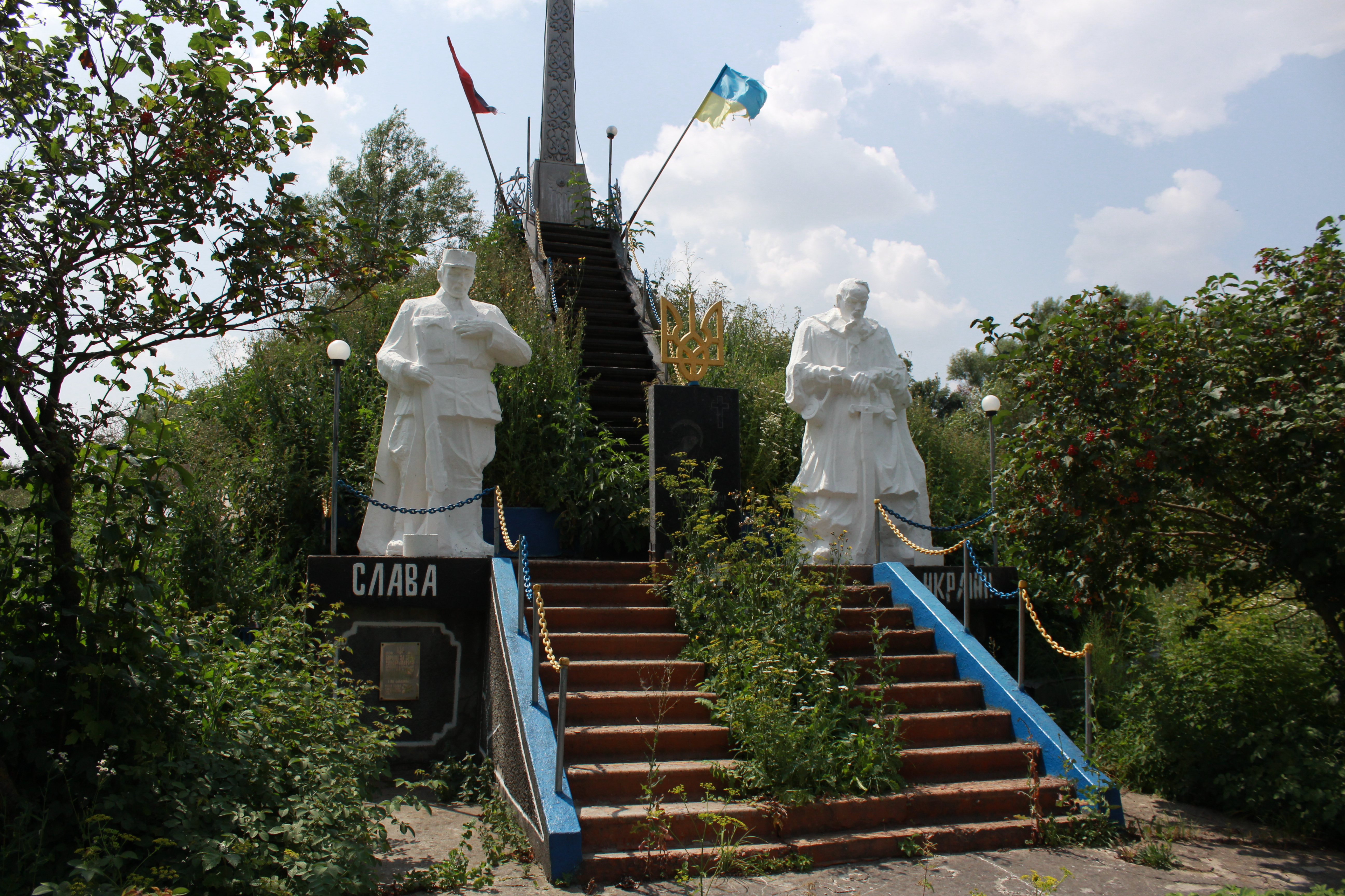 Пам'ятник борцям за волю України